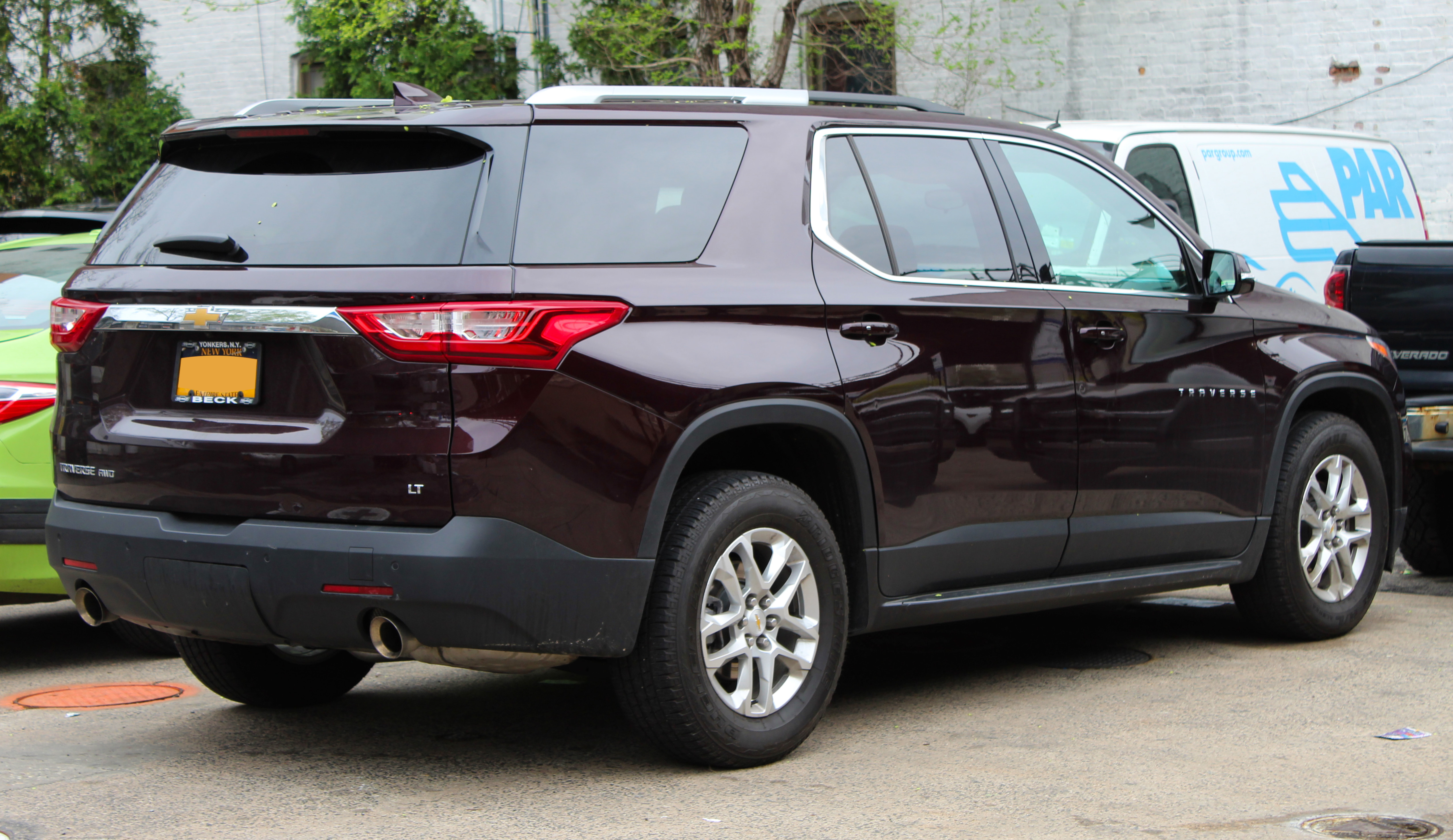 A 2018 Chevrolet Traverse photographed in Bronx, New York, USA